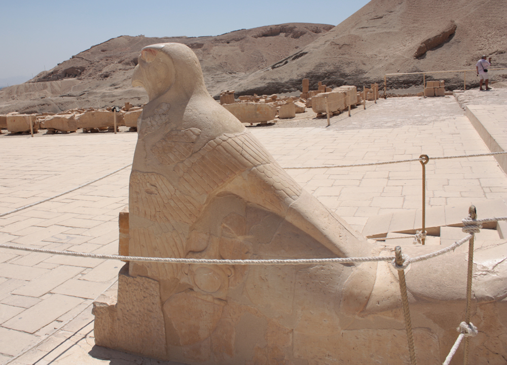 Hurus statue from Hatshepsut's temple, Egypt